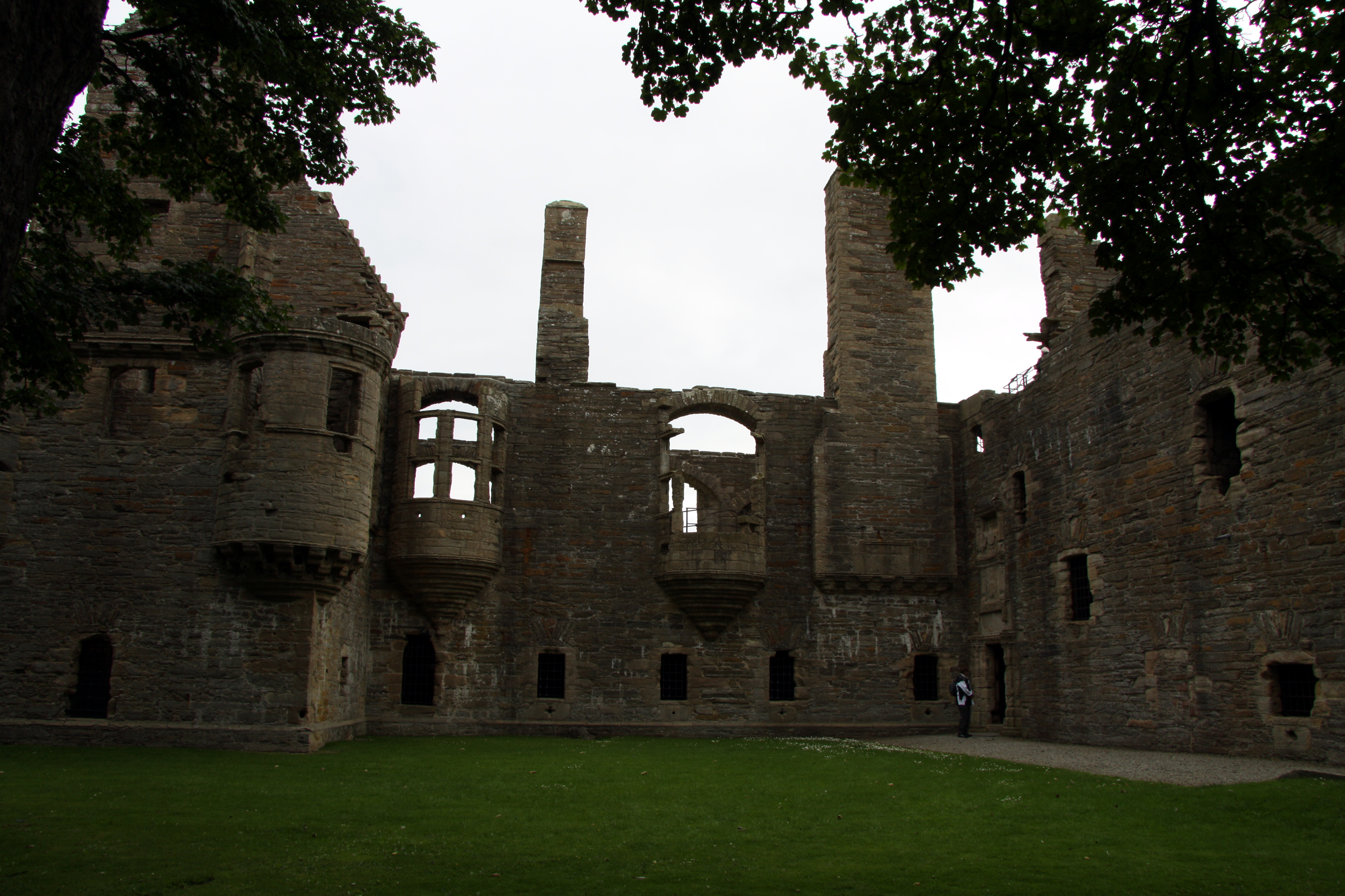 Earl's Palace, Kirkwall is a U-plan tower house in Kirkwall on Orkney, Scotland, Great Britain